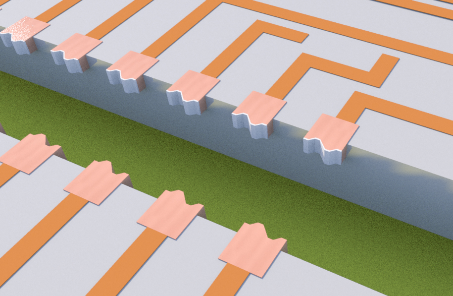 Concept Image of Quilt Packaging Nodules and RDL Metal